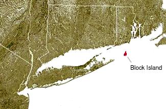 Block Island is shown off the coast of Rhode Island in the United States. Based on original public domain image courtesy of NOAA. Modifications © 2004 Matthew Trump